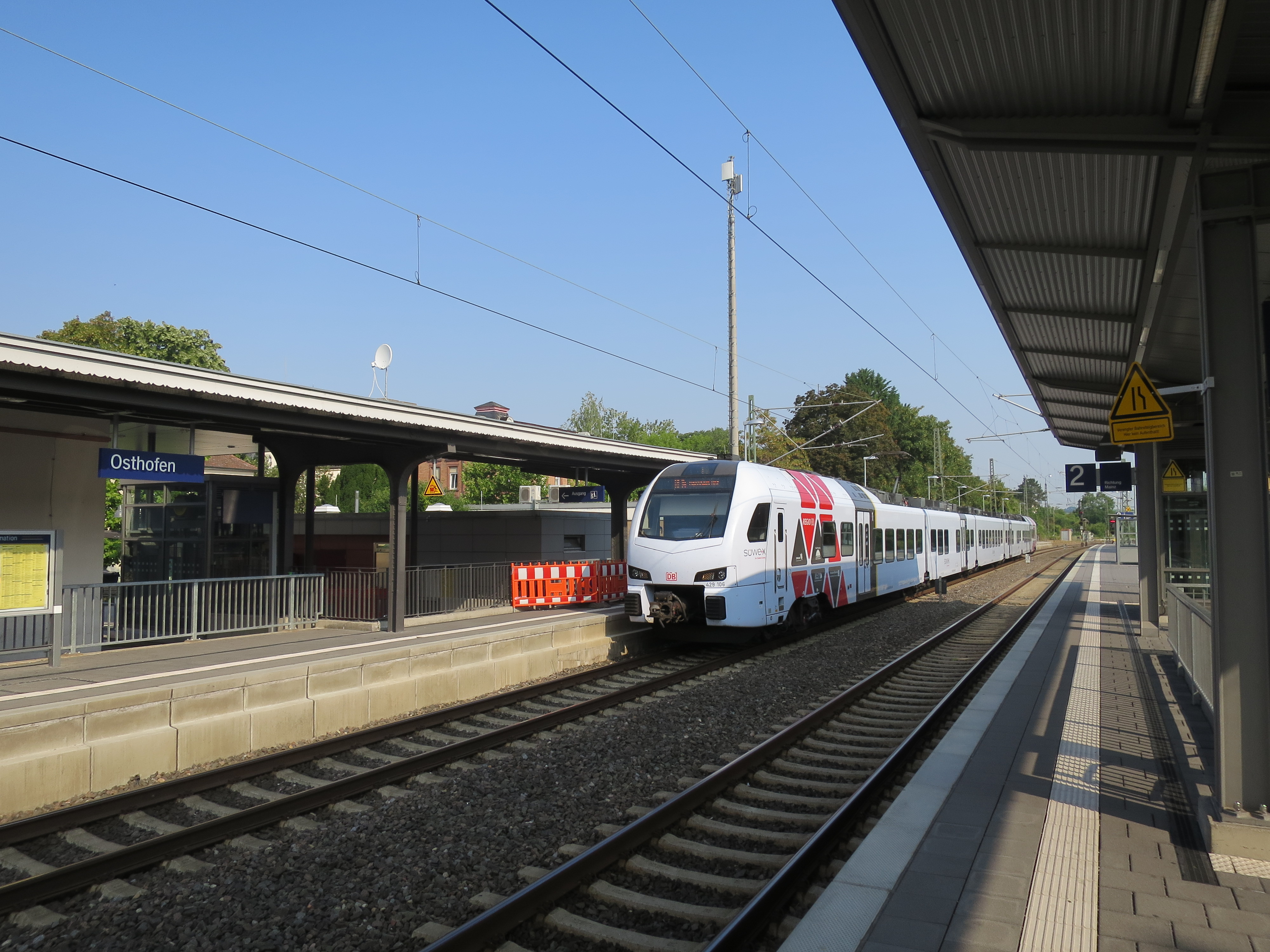 Osthofen rly. station with Regionalexpress passing